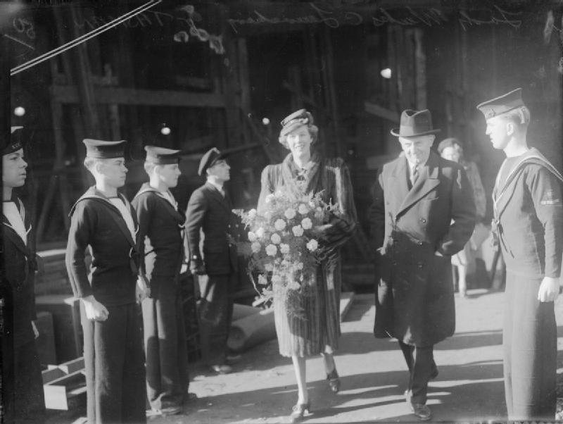 The Royal Navy during the Second World War Lady Weeks, wife of Lieutenant General Sir Ronald Weeks, Deputy Chief of Imperial Staff, walking with Commander E R Micklem, CBE, Managing Director of Vickers Armstrong, at the Vickers Armstrong Yard in Barrow-in-Furness.